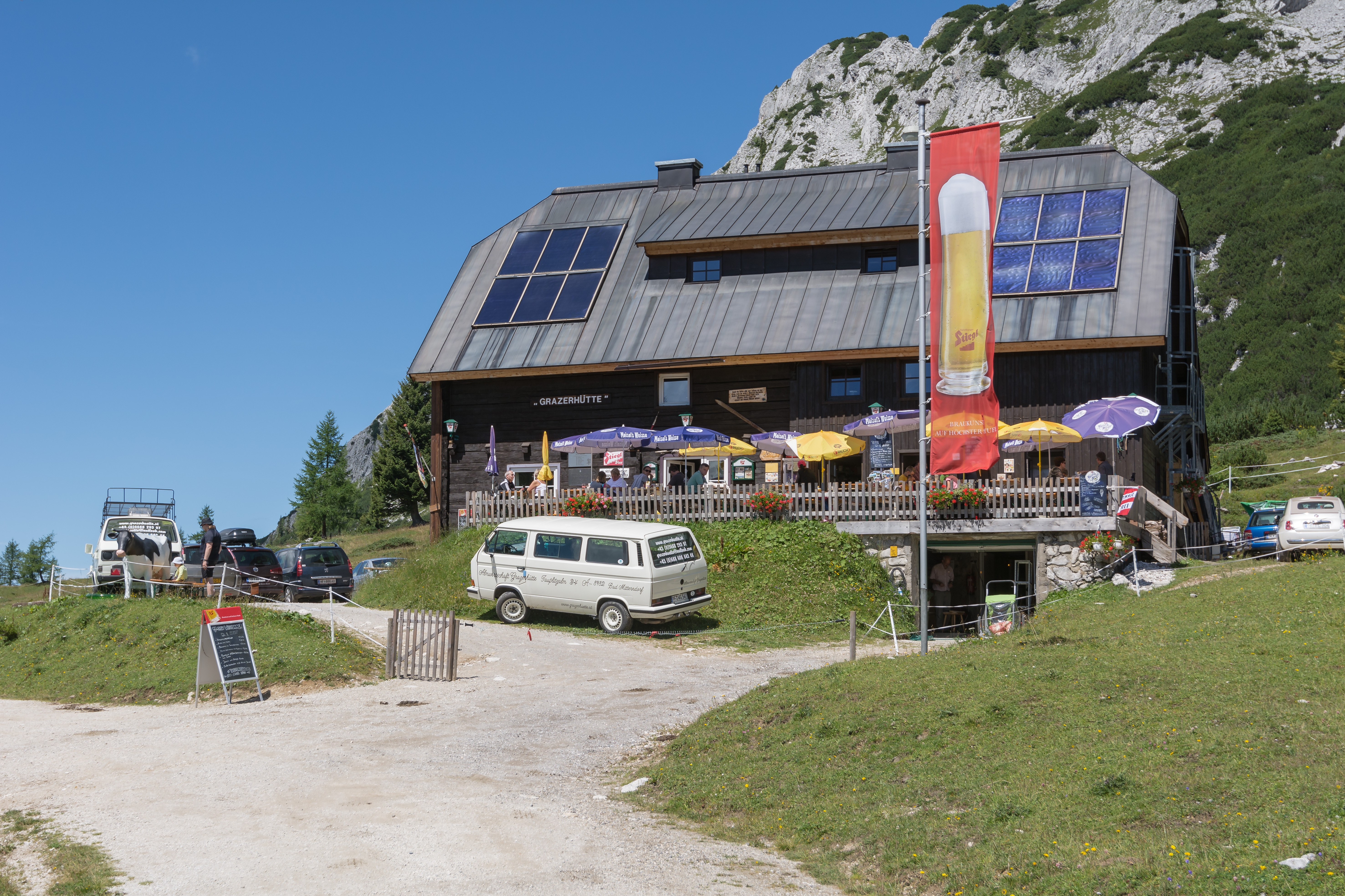 The alpine hut Grazer Hütte is an inn at the alpine pasture Tauplitzalm in Styria / Austria. It belongs to the student association Akademischer Turnverein Graz.